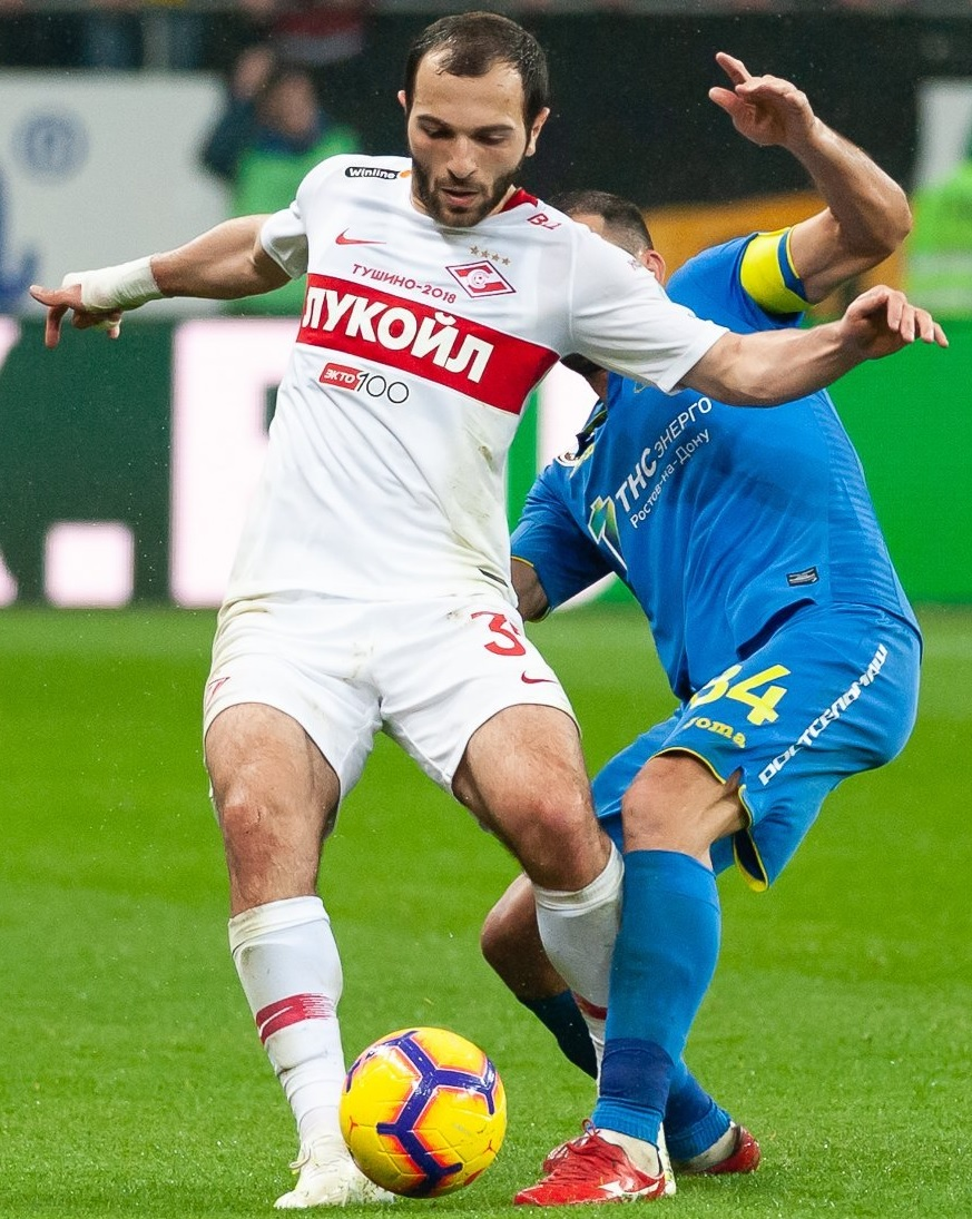 Georgi Melkadze with FC Spartak Moscow in a game against FC Rostov.